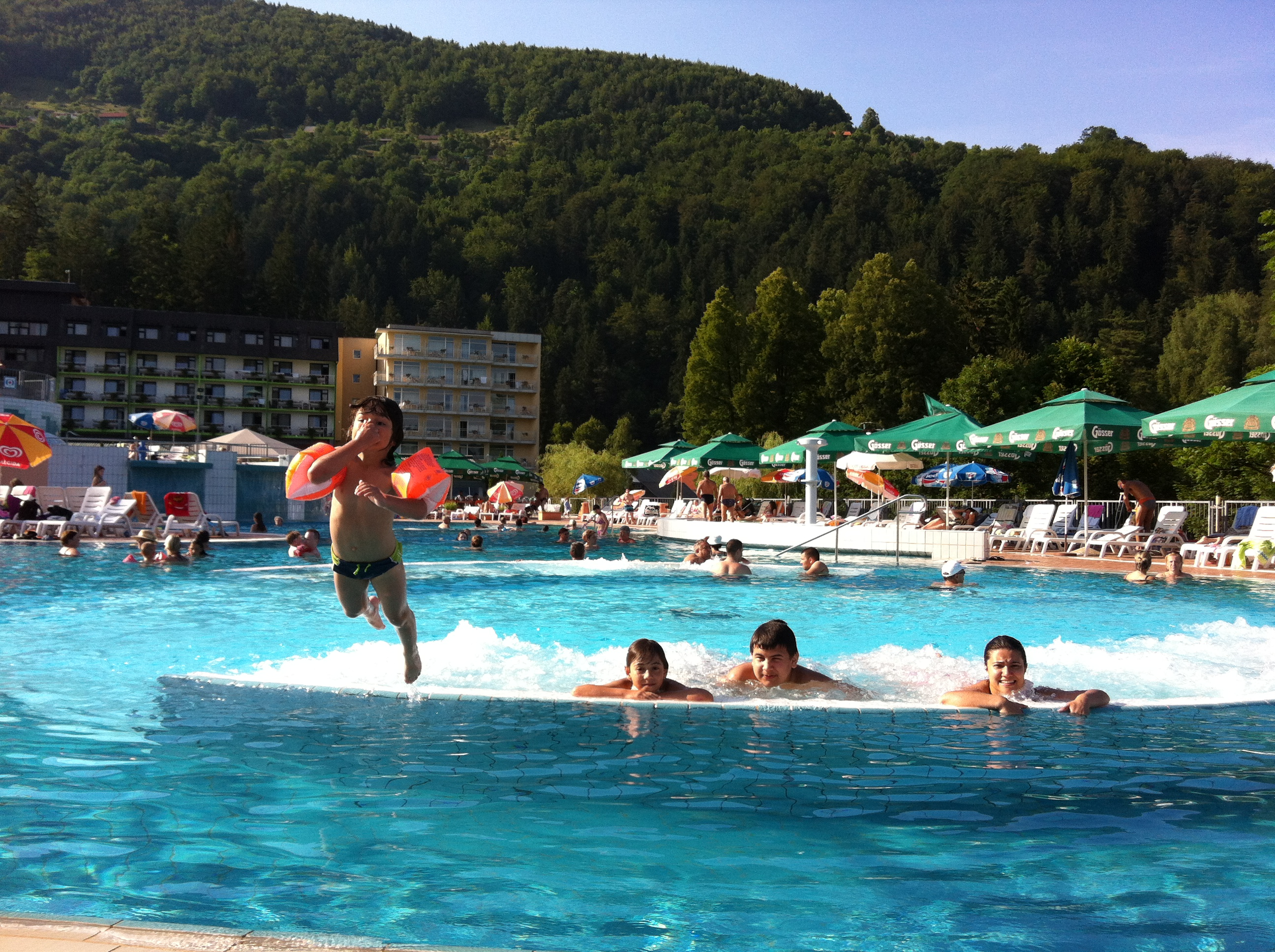 Terme Topolšica, spa in Slovenia IMG_3756